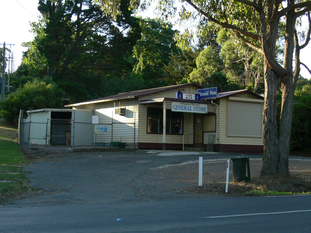 Photo of the Chum Creek General Store, taken on the 17th December 2007.